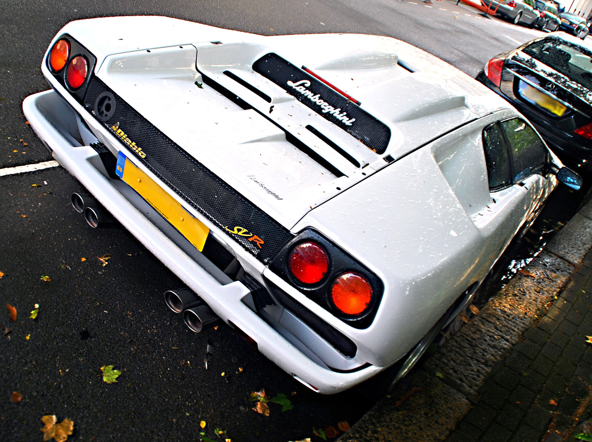 1 of 31 Diablo SV-R produced - a rare road-going example of the factory racing special